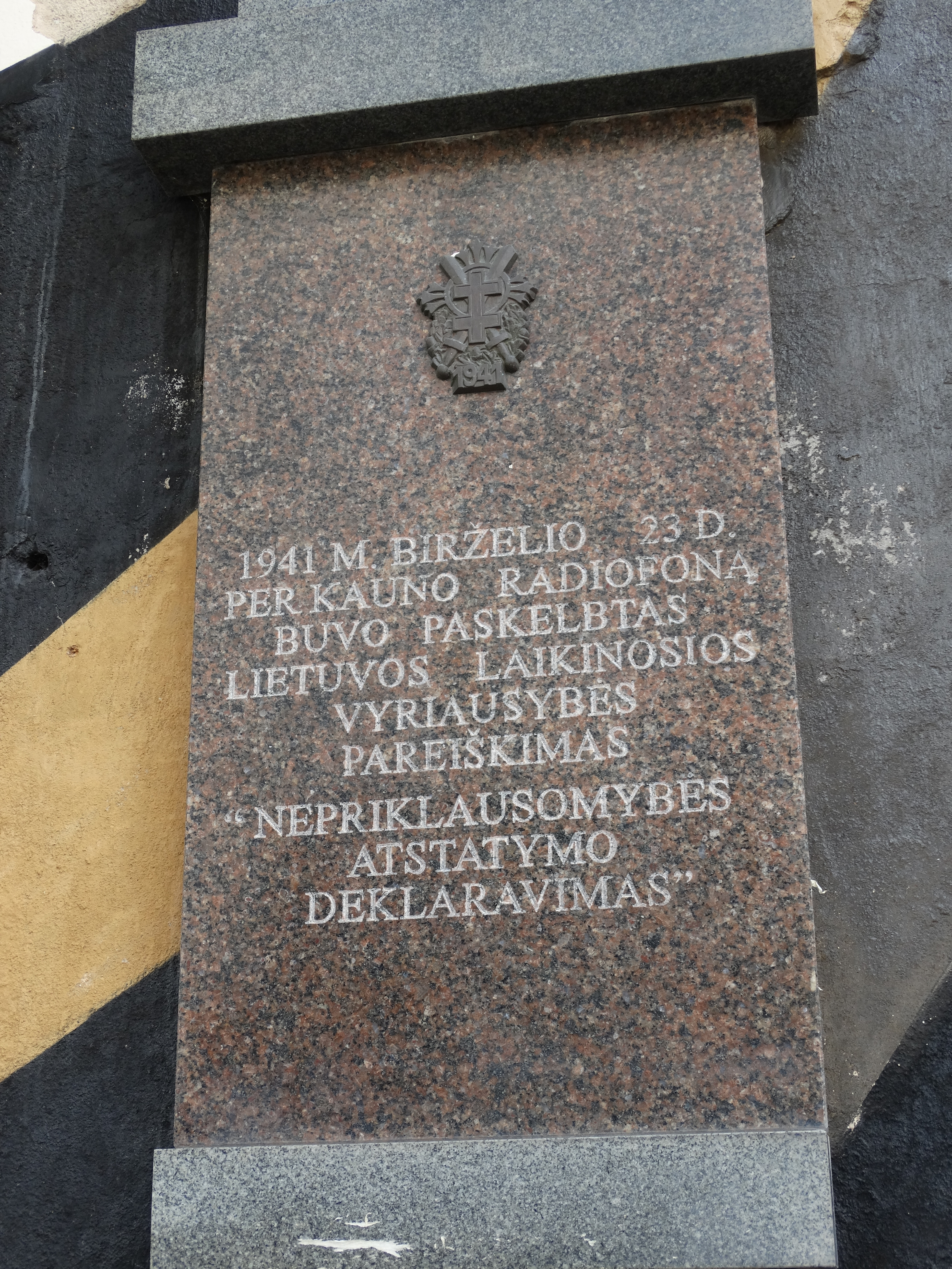 Former radio station Radiofonas, memorial plaque to restoration of state independence in 1941 , Kaunas, Lithuania